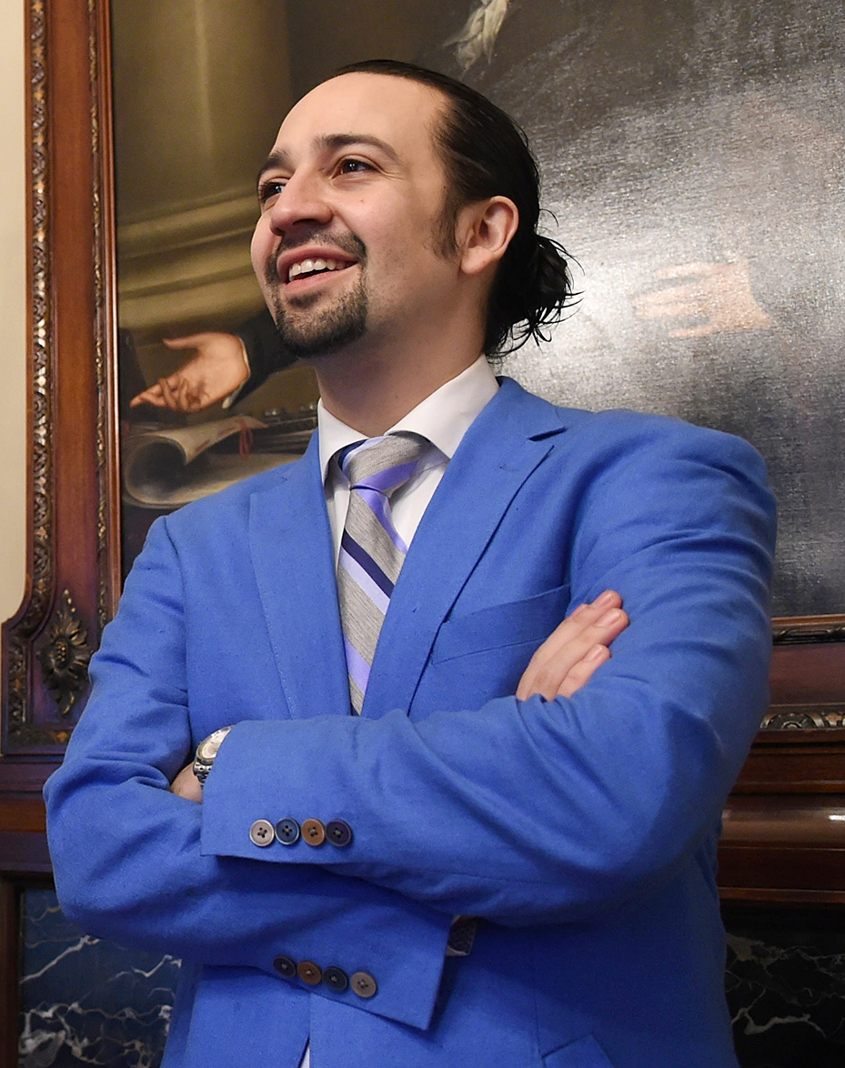 On March 14, 2016, Secretary Jack Lew and Hamilton writer composer Lin-Manuel Miranda met in the Secretary's office or as Miranda writes, "the room where it happens."